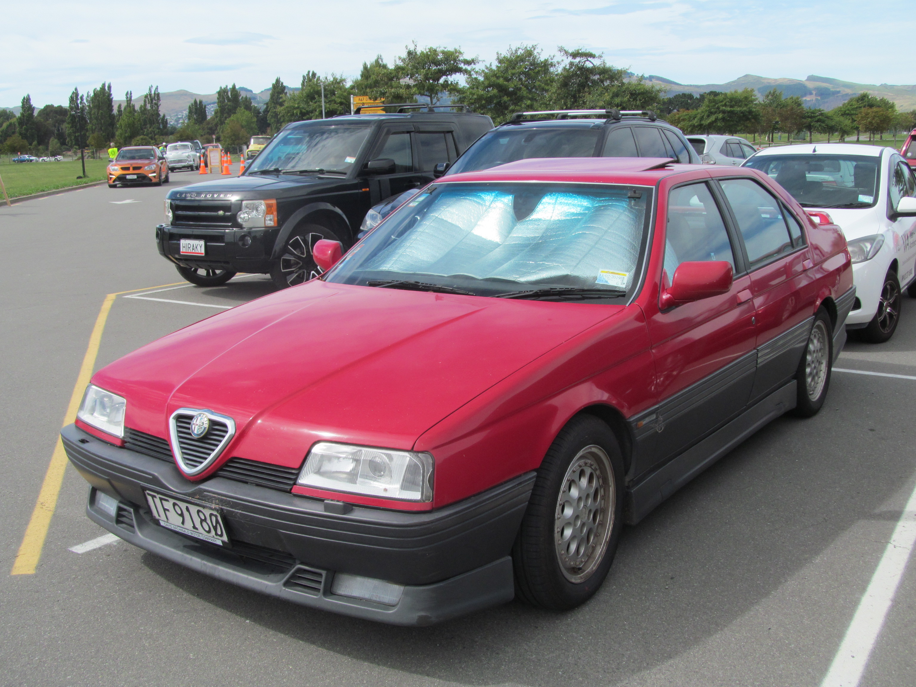 An iconic Alfa for me, in red, manual, with a sunroof and 2959cc of joy... This car cost $98,950 in early 1995, the equivalent of $129,557 today!